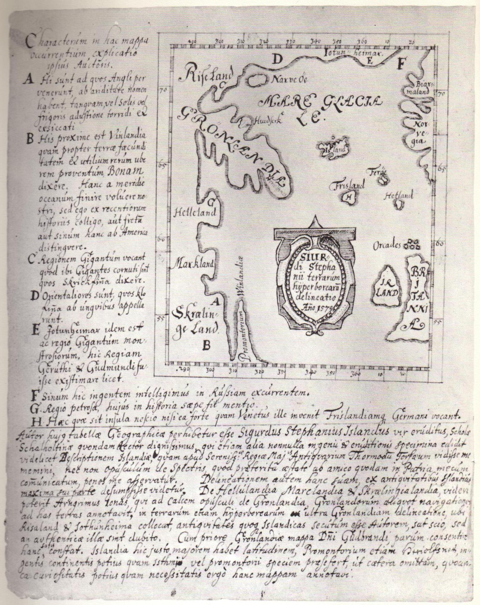 The Skálholt-map made by the icelandic teacher Sigurd Stefansson in the year 1570. Description Greenlands from Bjørn Jonsen of Skarsaa in Iceland from the year 1669, latin by Theodor Thorlac